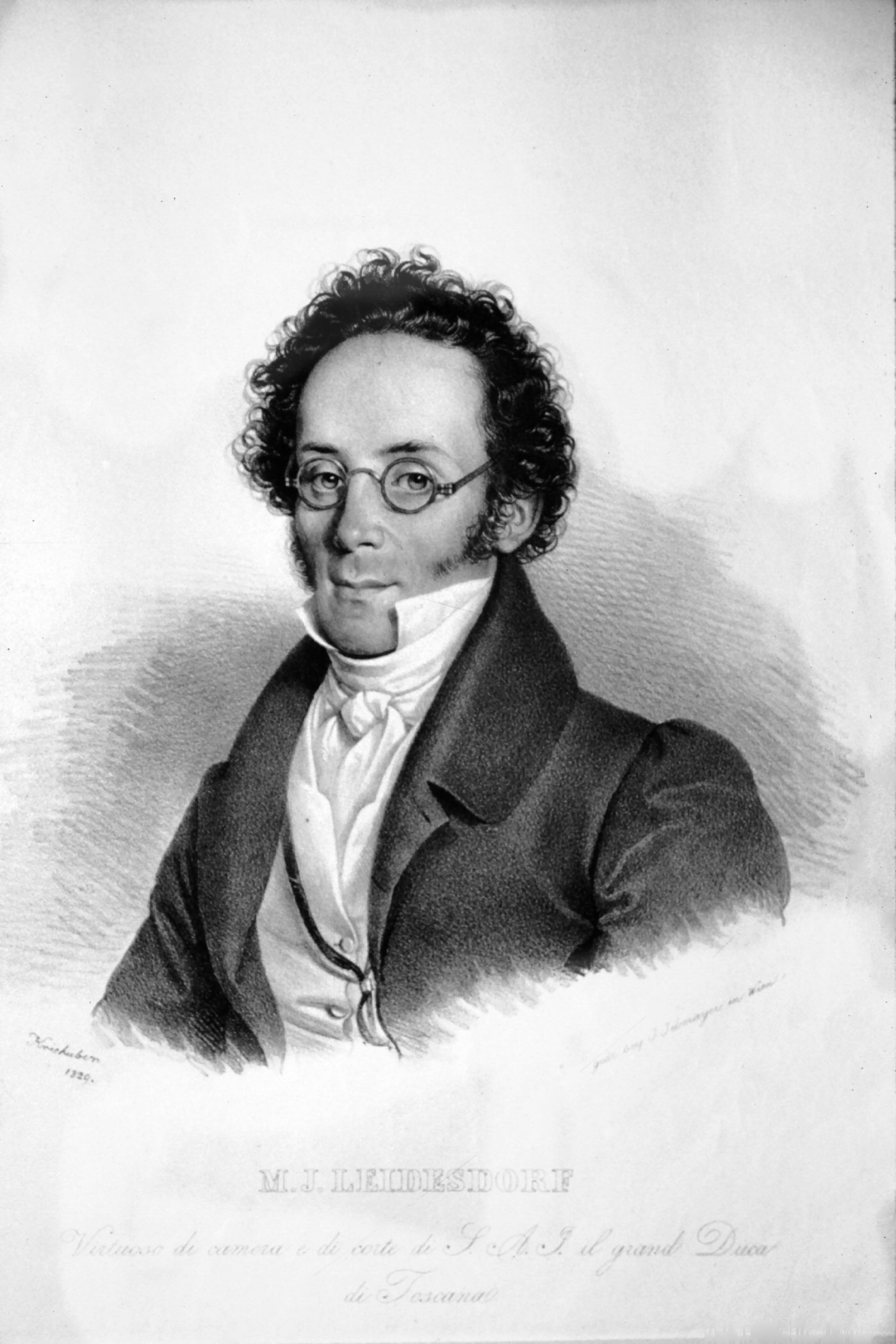 Maximilian Josef Leidesdorf (1787-1840) Austrian Composer, Pianist and Music Publisher Lithograph by Josef Kriehuber, 1829